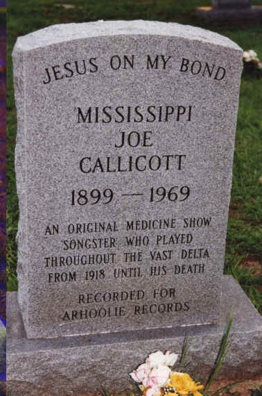 The tombstone of Joe Callicott